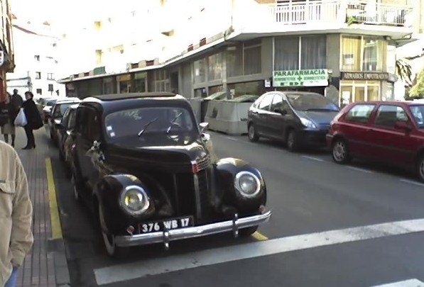 Well, I've decided to empty my mobile phone of all the pictures I had in it; mostly cars. When I didn't own a camera myself I wouldn't photograph many cars at all (logical since I didn't have anything to do it with) but everytime I'd see an interesting car and had a good chance of snapping it, I wouldn't miss the opportunity. Wedding car I saw one day. Even if those headlights look familiar I am not sure what the car is, who does? where are its plates from? Seen in Castro Urdiales (Cantabria).